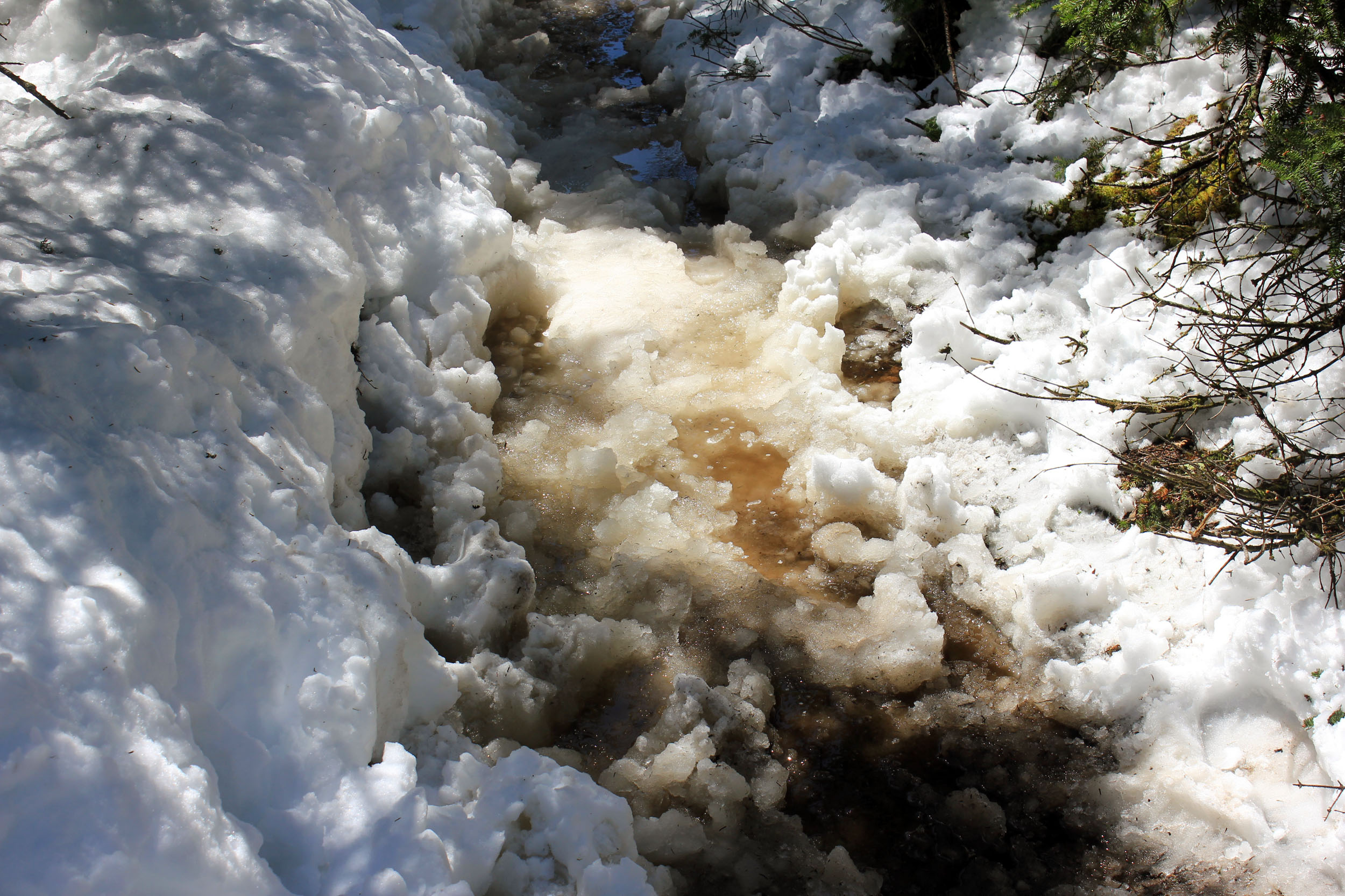 Adirondack Mountains: Yep, you must go through miles of this stuff to get there